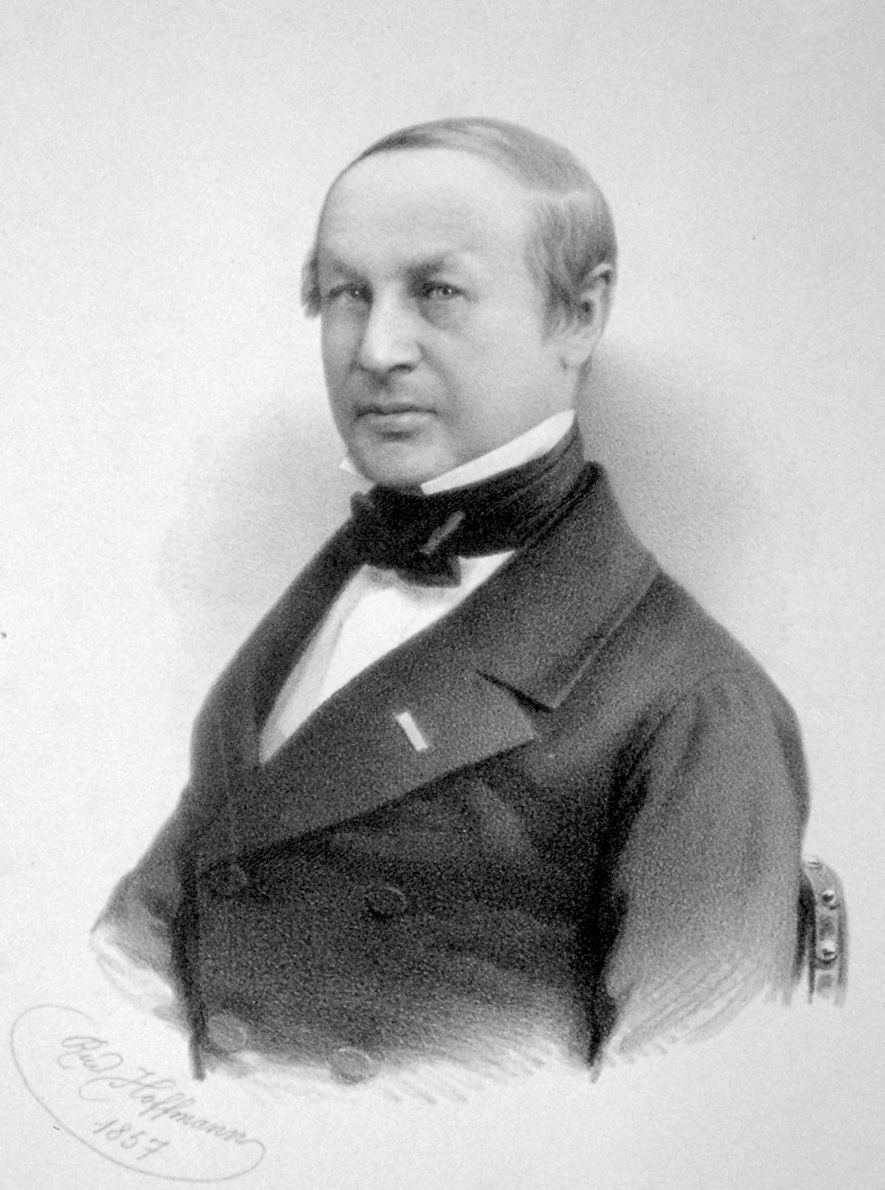 Theodor Schwann (1810-1882), Lithographie von Rudolf Hoffmann, 1857